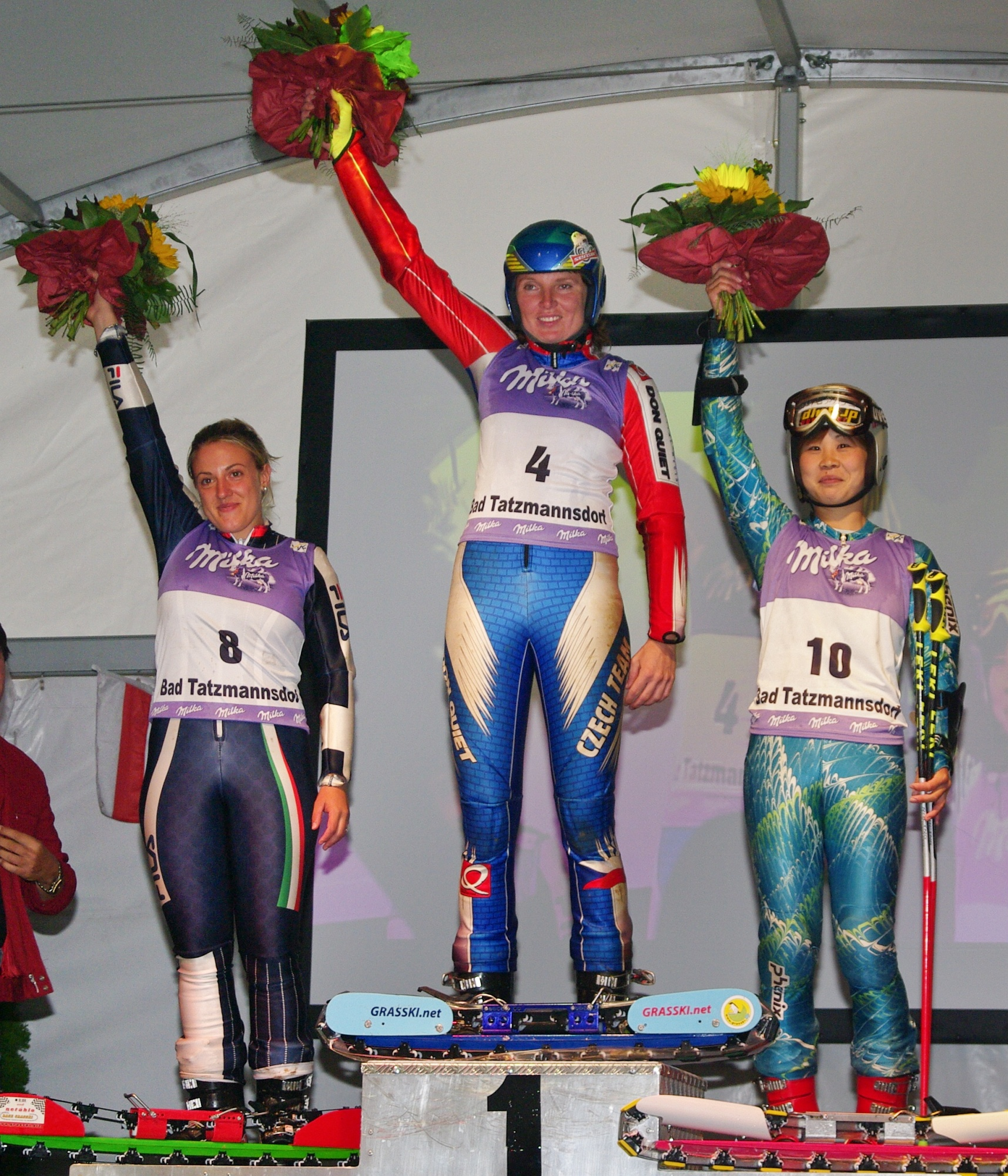 Grass Skiing World Championships 2009 in Rettenbach, Austria. Women's Super-G, Flower Ceremony: 1st Place: Zuzana Gardavská (CZE), 2nd Place: Antonella Manzoni (ITA), 3rd Place: Yukiyo Shintani (JPN)